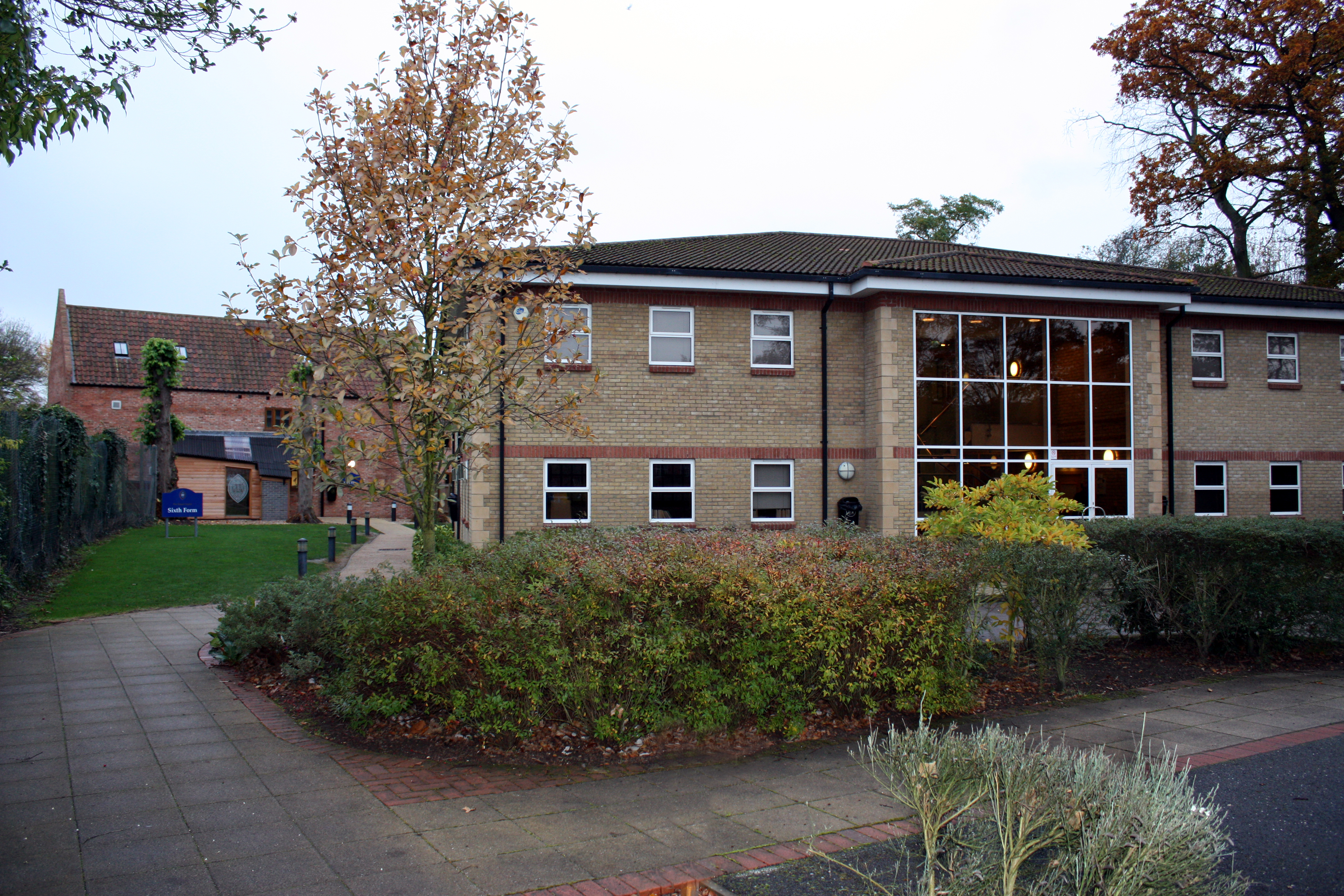 The Dwight Centre (English and music) and the new Hazel Centre (sixth form) at Wisbech Grammar School.